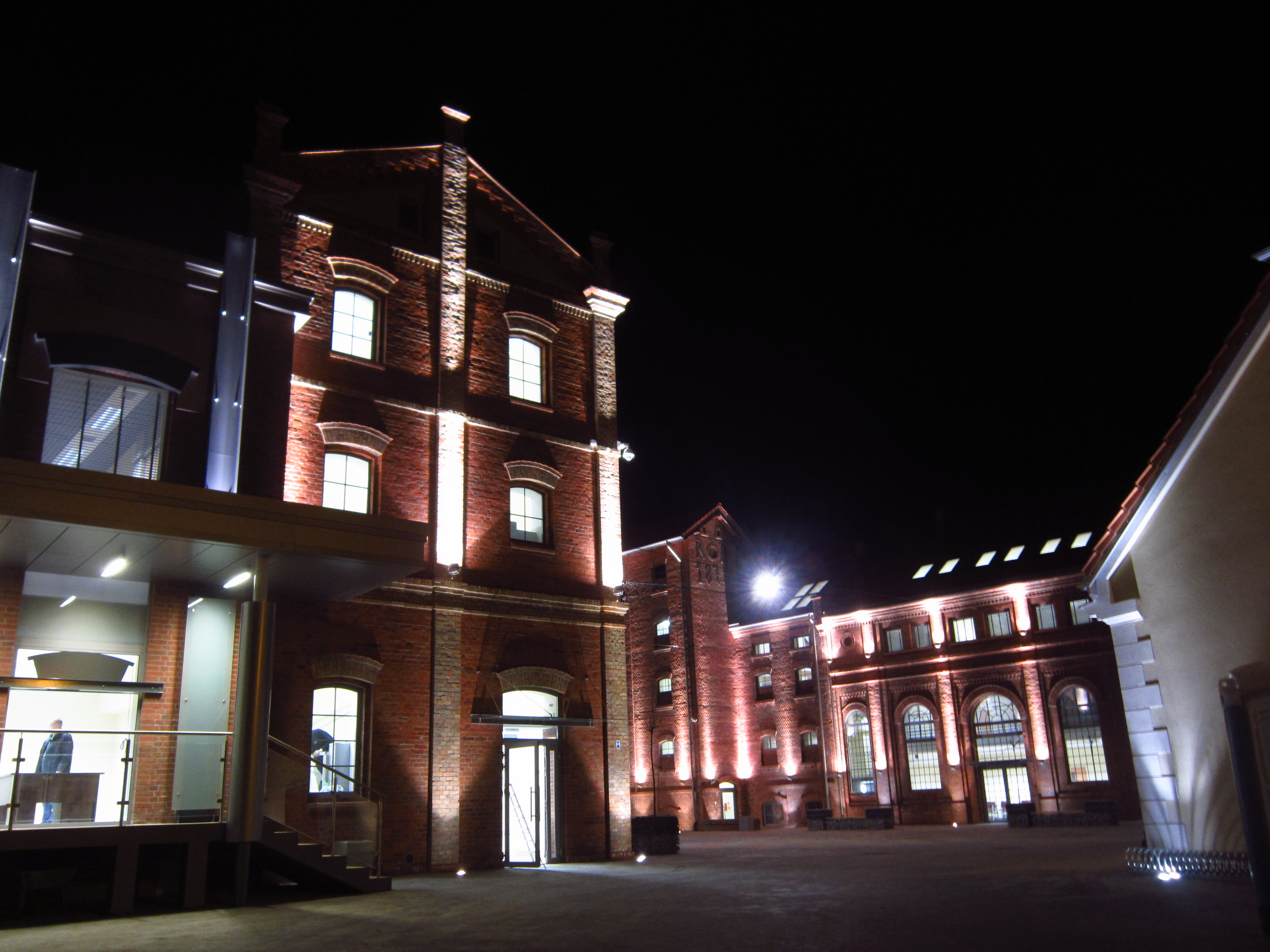 The illuminate of brewery "B" have been started to work on 27 February 2014.